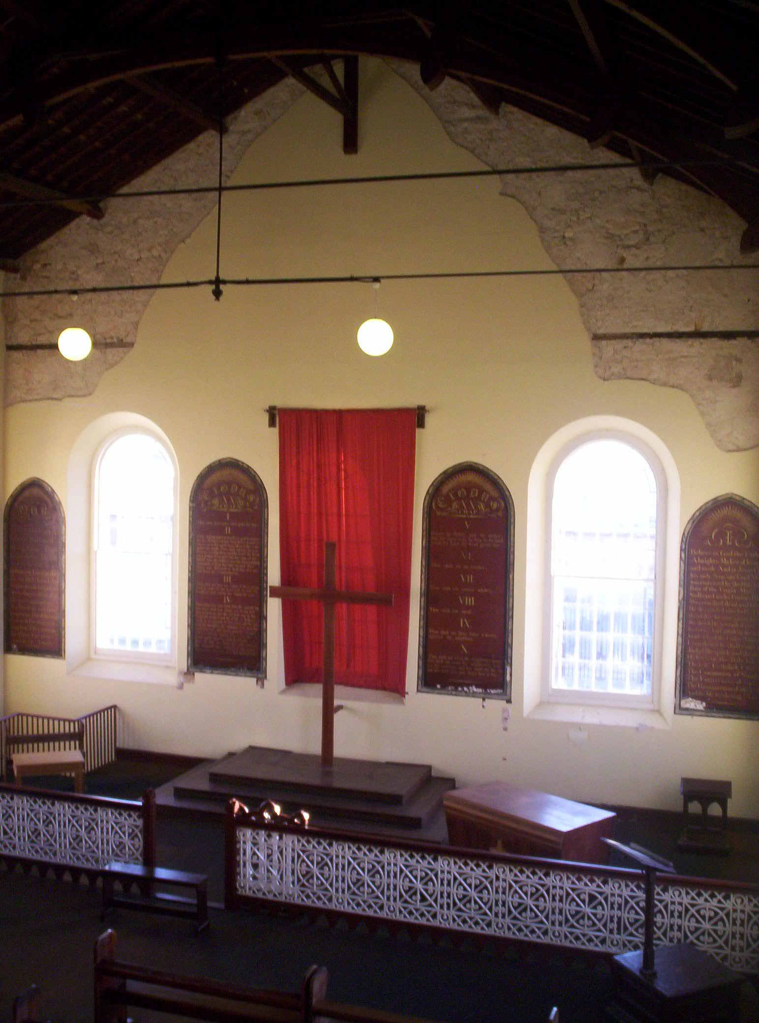 Inside of the Anglican Chapel Fremantle Prison.